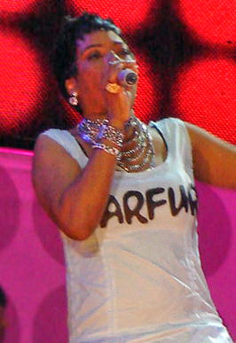 Macy Gray performing at the Live Earth Brazil concert at Copacabana Beach, Rio de Janeiro on July 7, 2007.